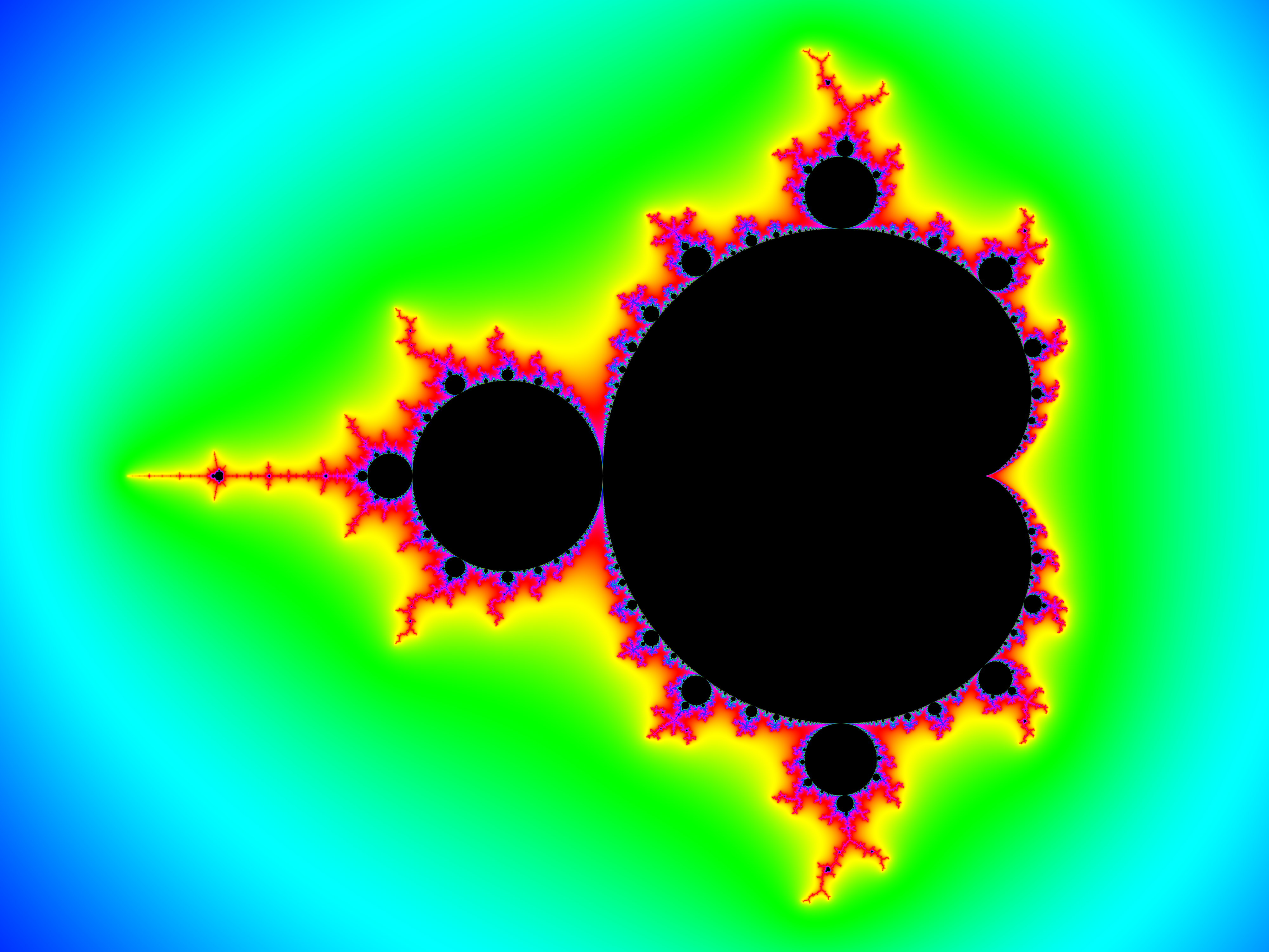 Color image of the mandelbrot set. The color indicates the number of iterations before the absolute value of a complex number exceeds a certain value. The complex number z 0 {\displaystyle z_{0 is taken from the pixels coordinates. Succeeding values are calculated as z := z 2 + z 0 {\displaystyle z:=z^{2}+z_{0 .